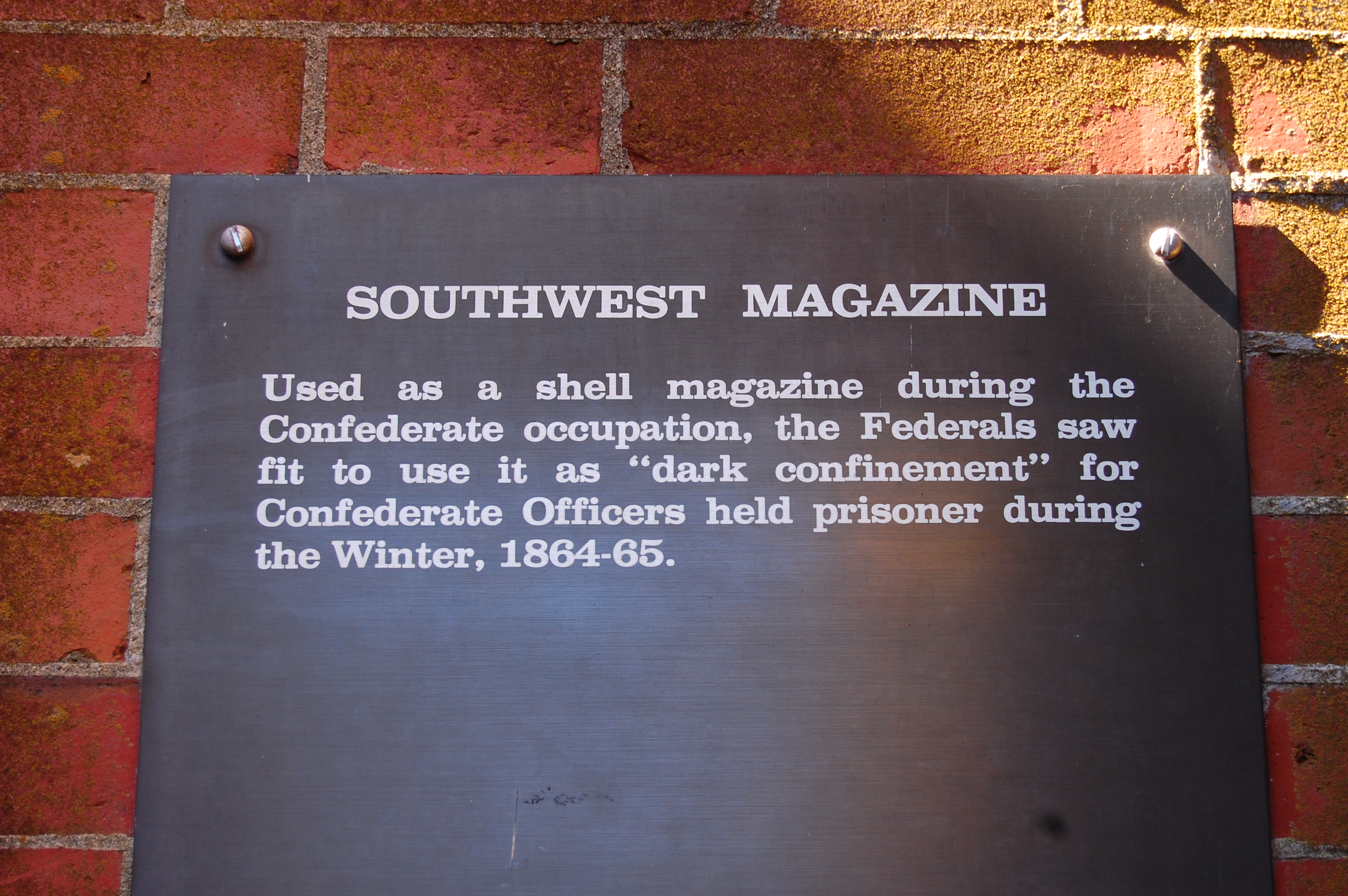 Sign of the southwest magazine in Fort Pulaski, near Savannah, Georgia. It was used to store shells when the fort was occupied by Confederates, the US used it to confine Confederates in the dark.